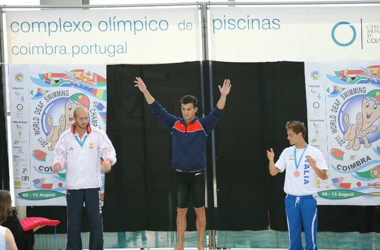 Marcus titus winning awards